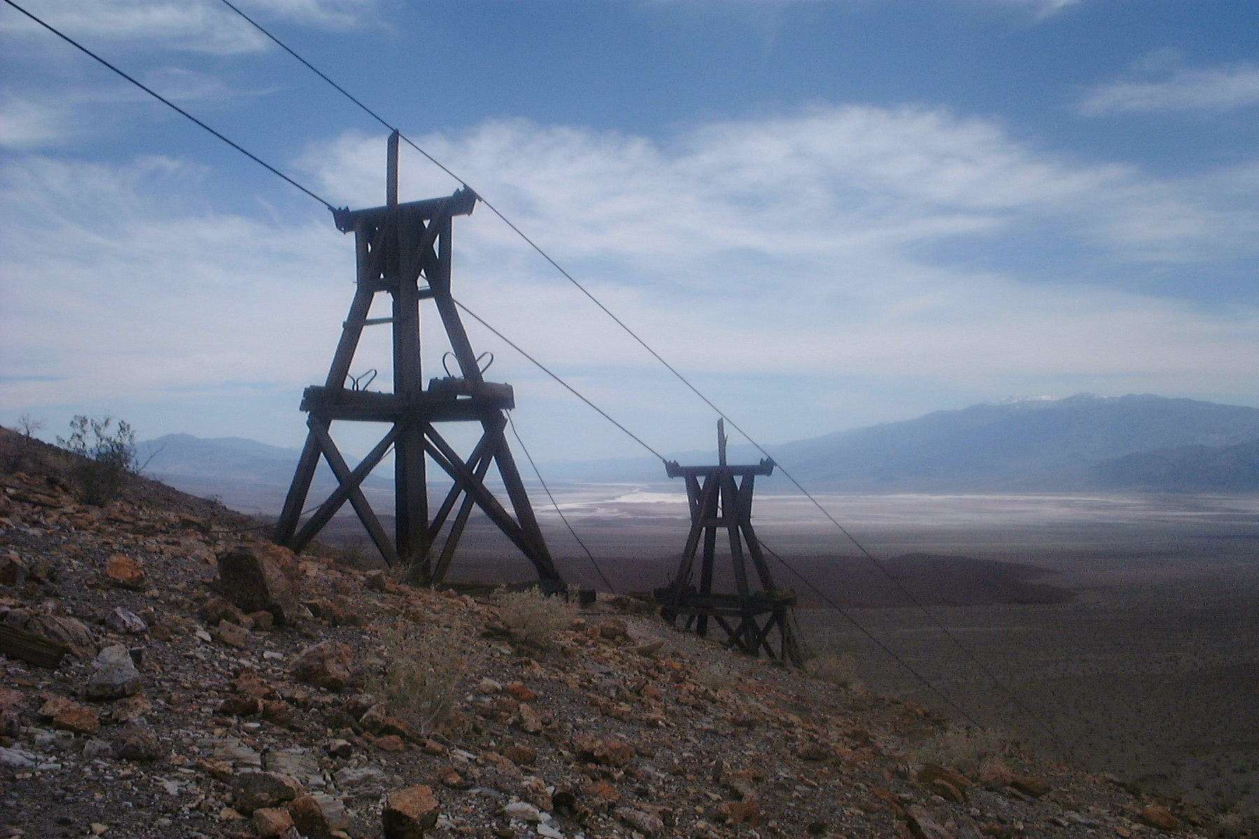 Tramway, Keane Wonder Mine. Well-preserved abandoned mine in Death Valley National Park. Well worth the steep hike towards the site.